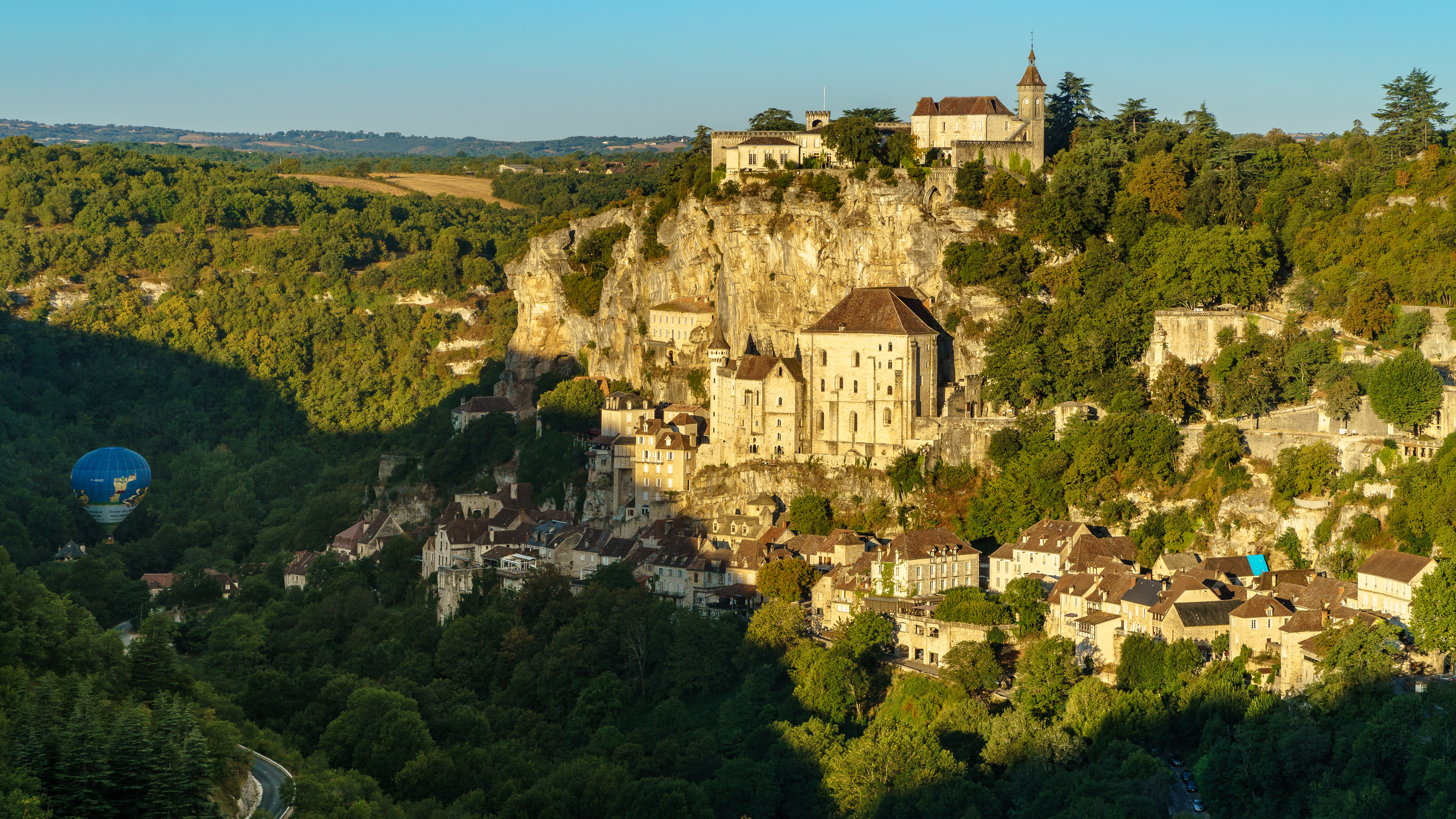 Rocamadour at morning